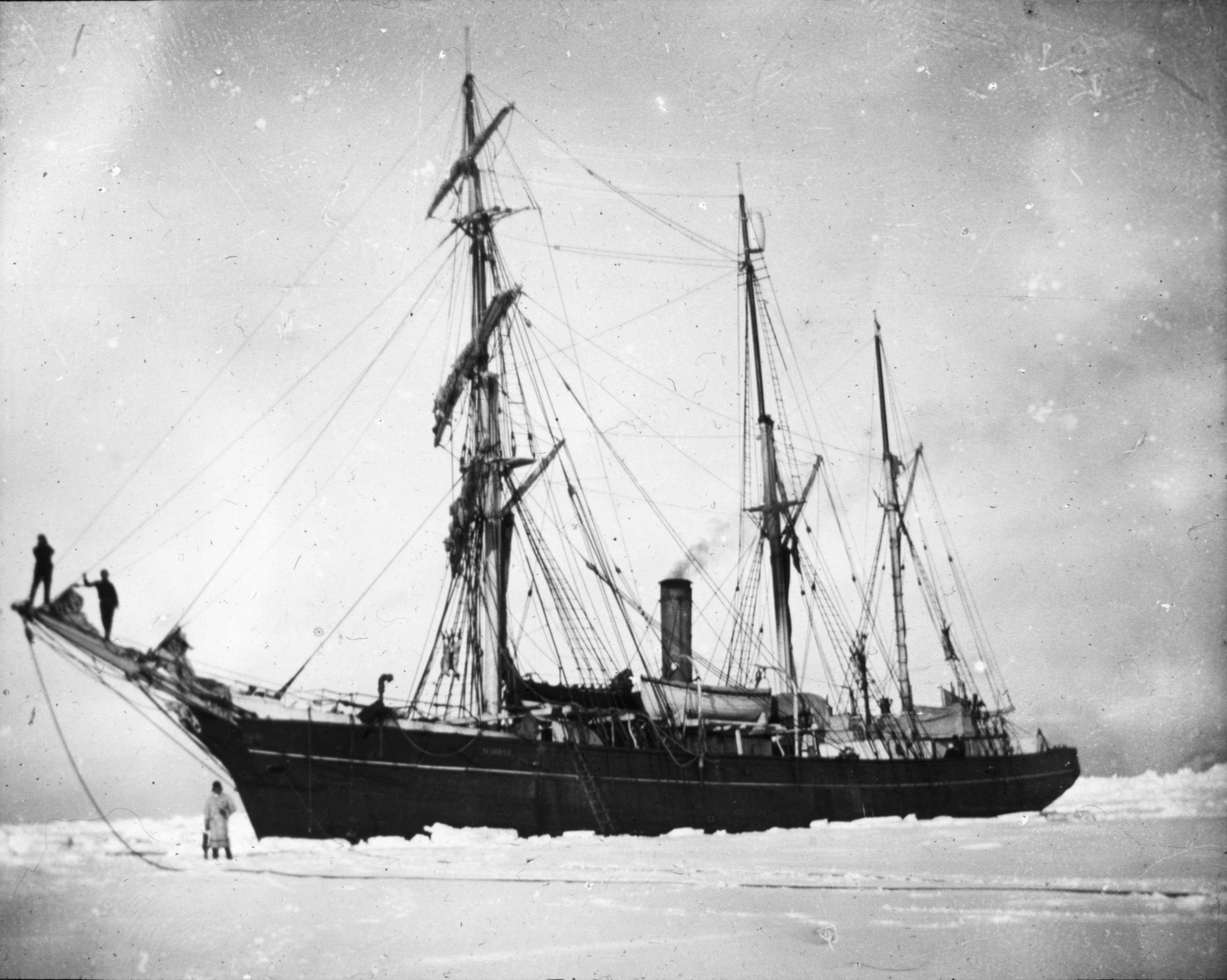 Photographs of the Nimrod Expedition (1907-09) to the Antarctic, led by Ernest Sheckleton